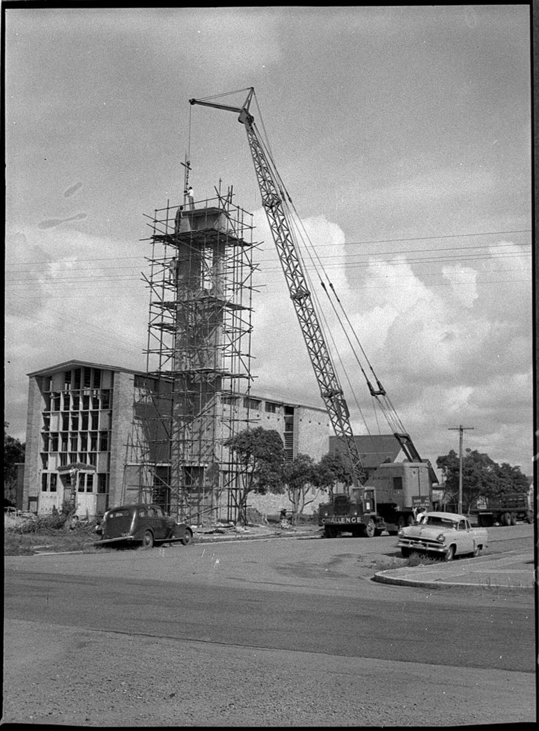 Hamilton South Church of England